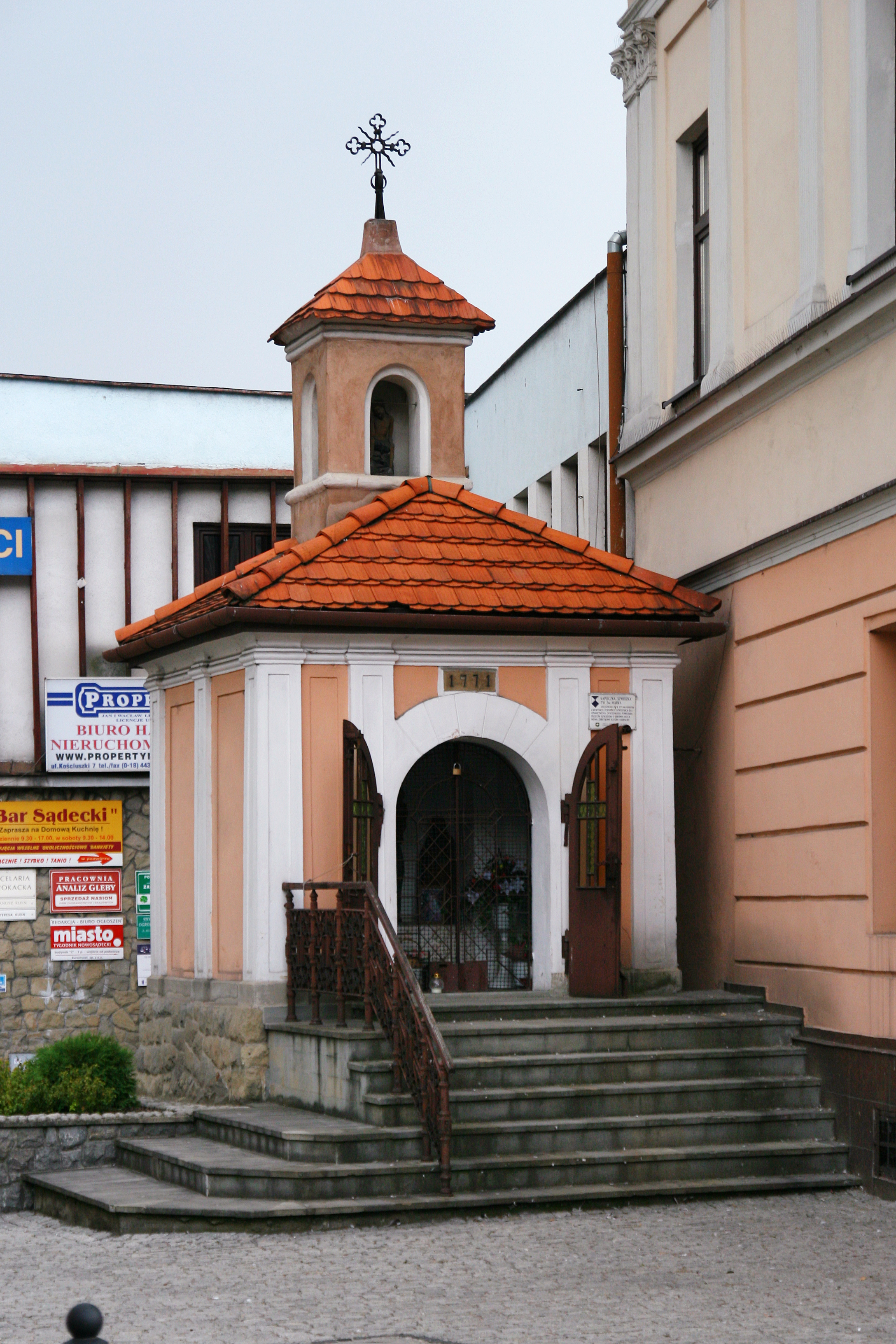 Chapel in Nowy Sącz (Poland).